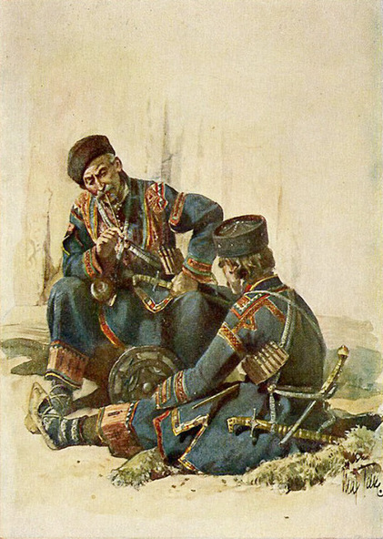 Khevsurs